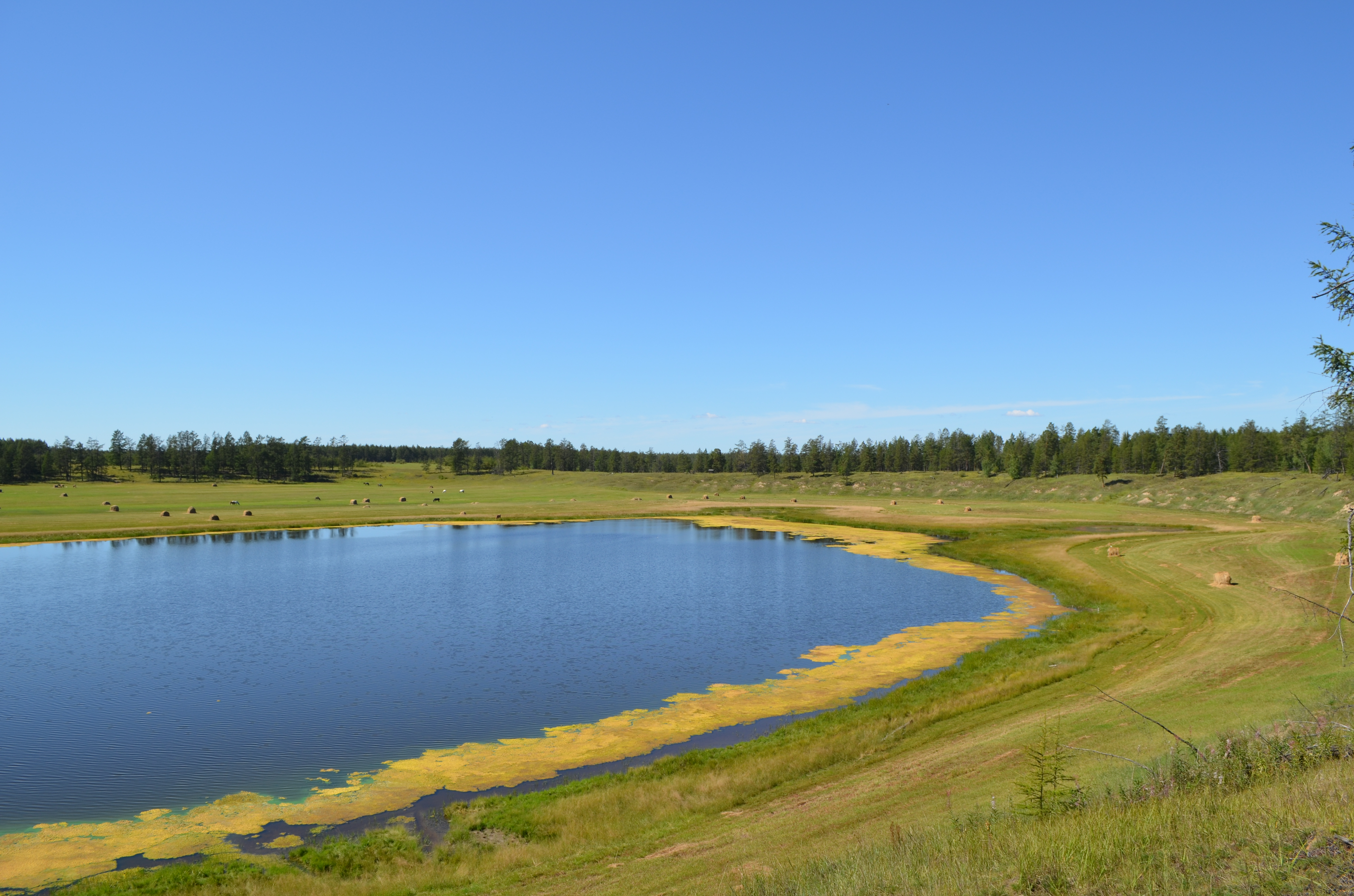 Alas Mamykan nearby from selo Mayya of Megino-Kangalassky District of Yakutia, August, 2016